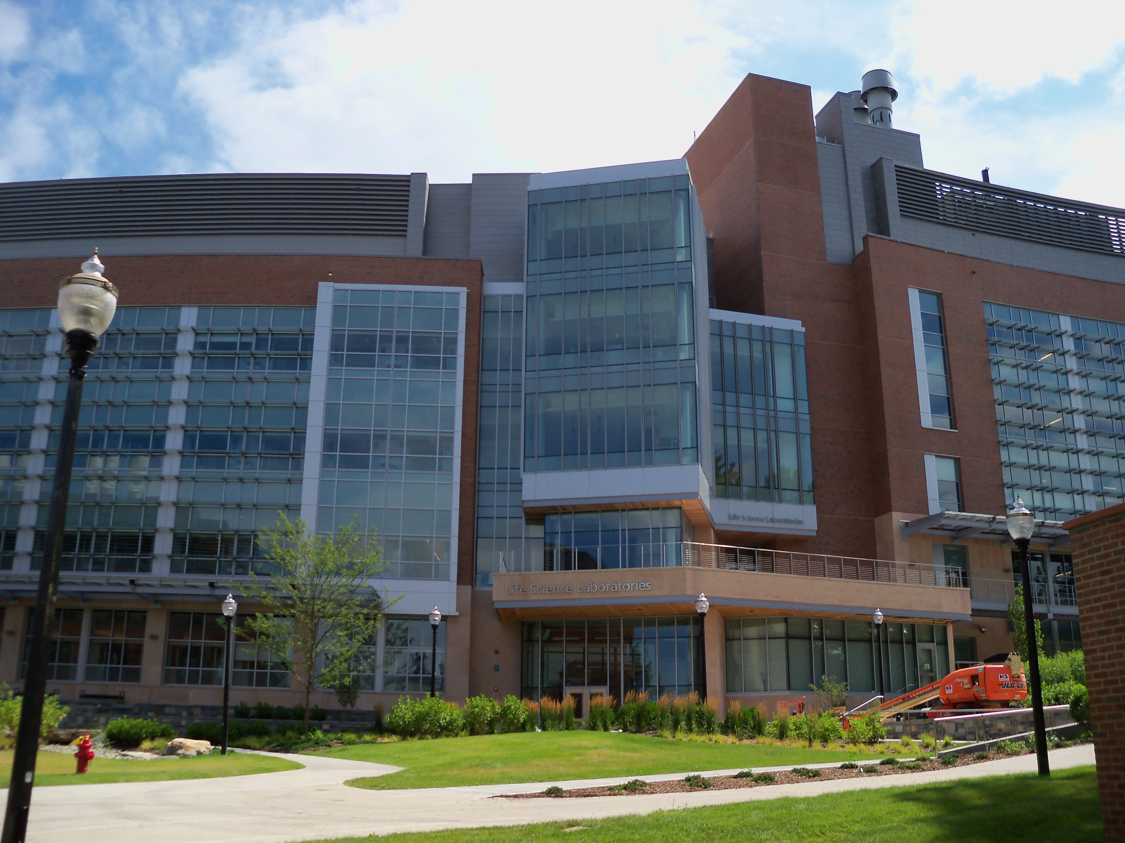 Life Science Laboratory on the campus of the University of Massachusetts - Amherst.